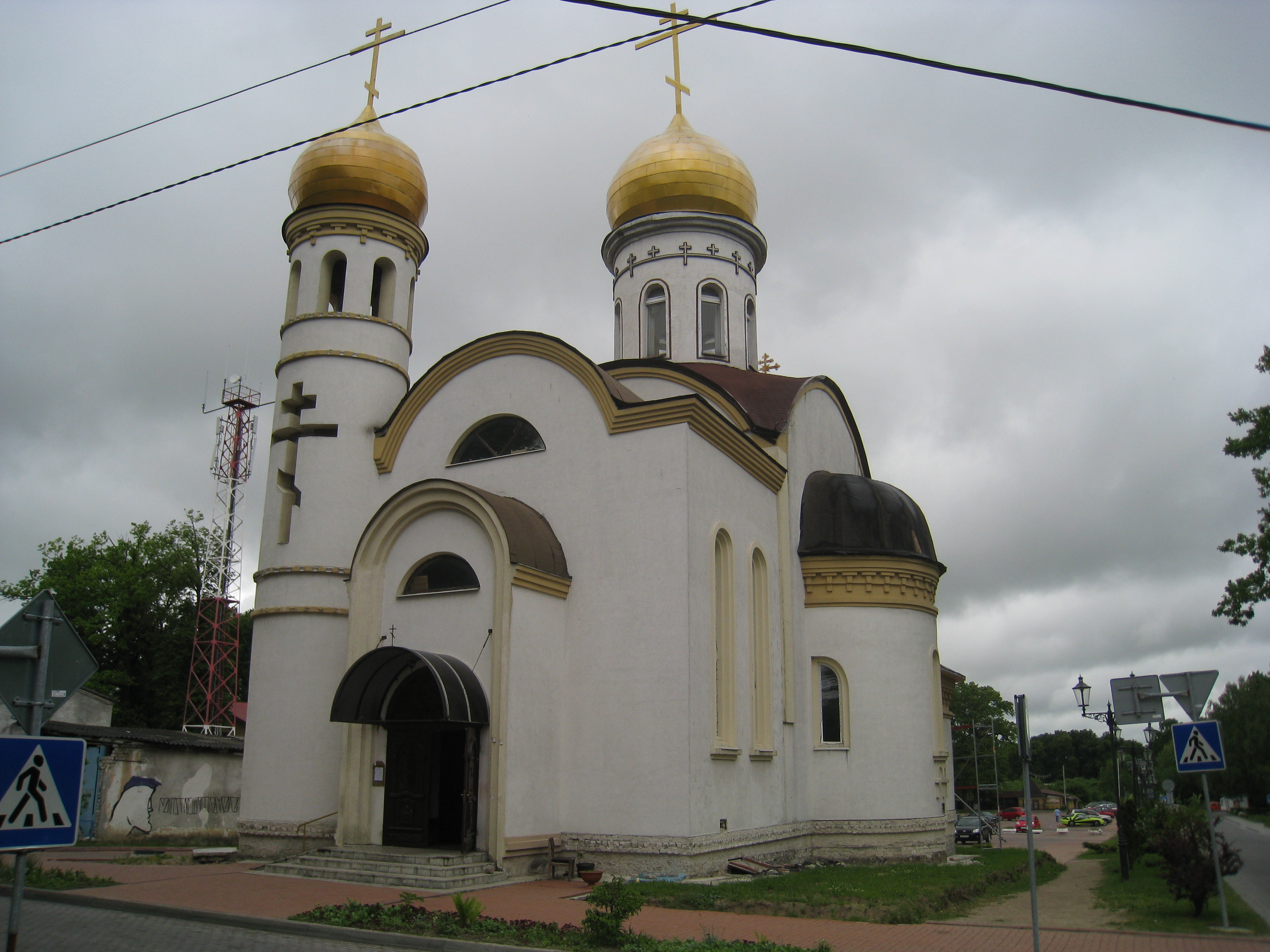 Orthodox church